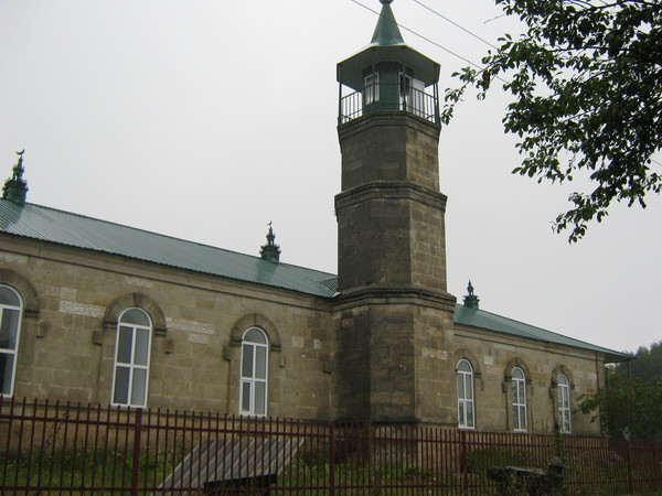 The mosque is located in the village of Tsentoroi Nozhai-Yurt district